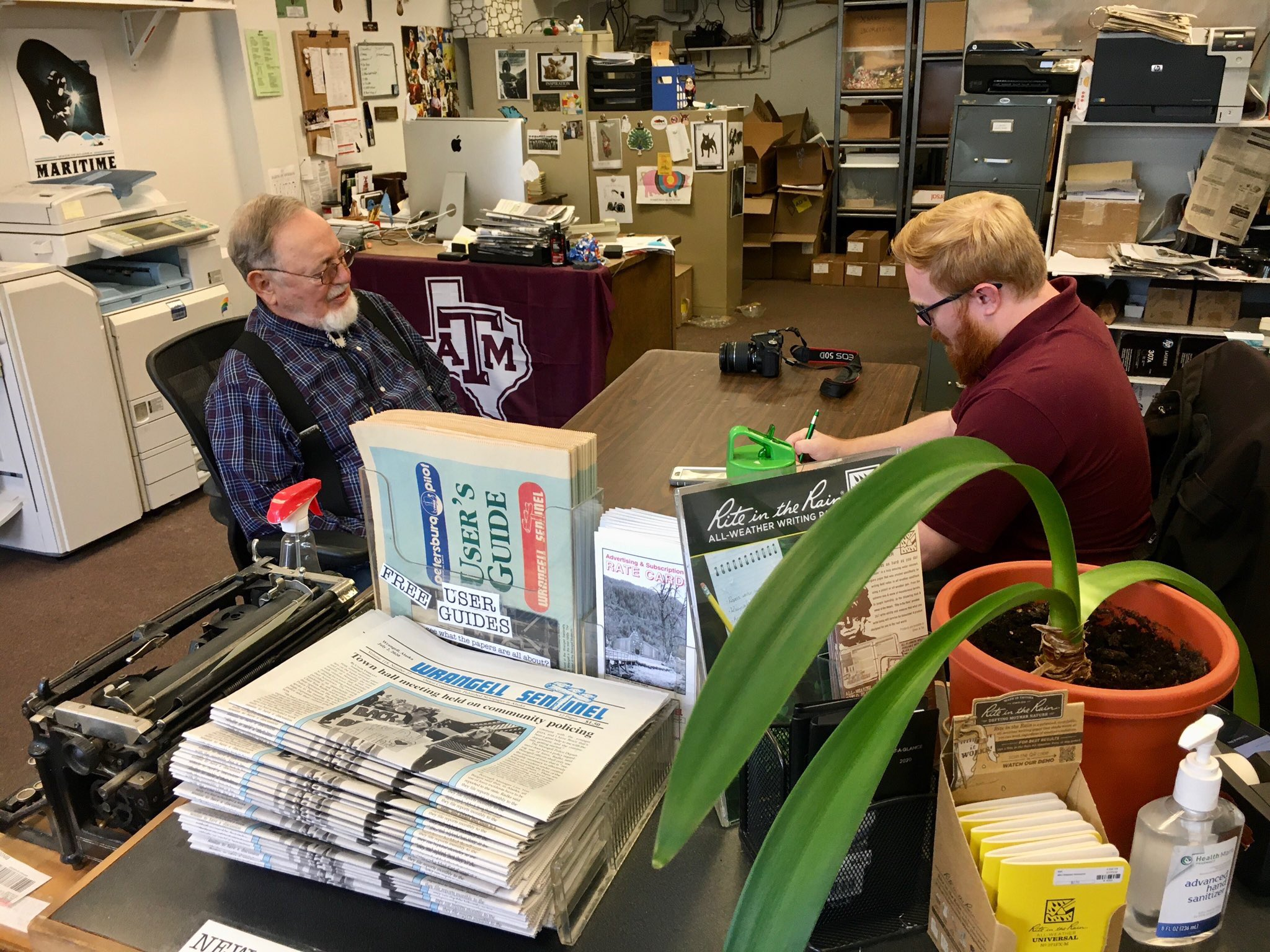 Thanks to Caleb Vierkant at the Wrangell Sentinel, Michelle O'Brien at KTKN, John Tierney at the Copper River Record, Greg Knight at KINY, and Scott Yahr at KCAM for their excellent questions on energy development, infrastructure, economic opportunity, and much more.